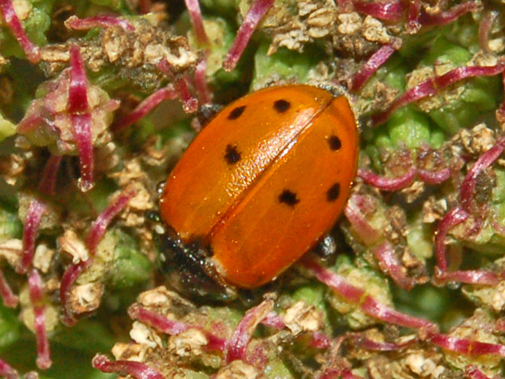 Hippodamia variegata variegata var costellata